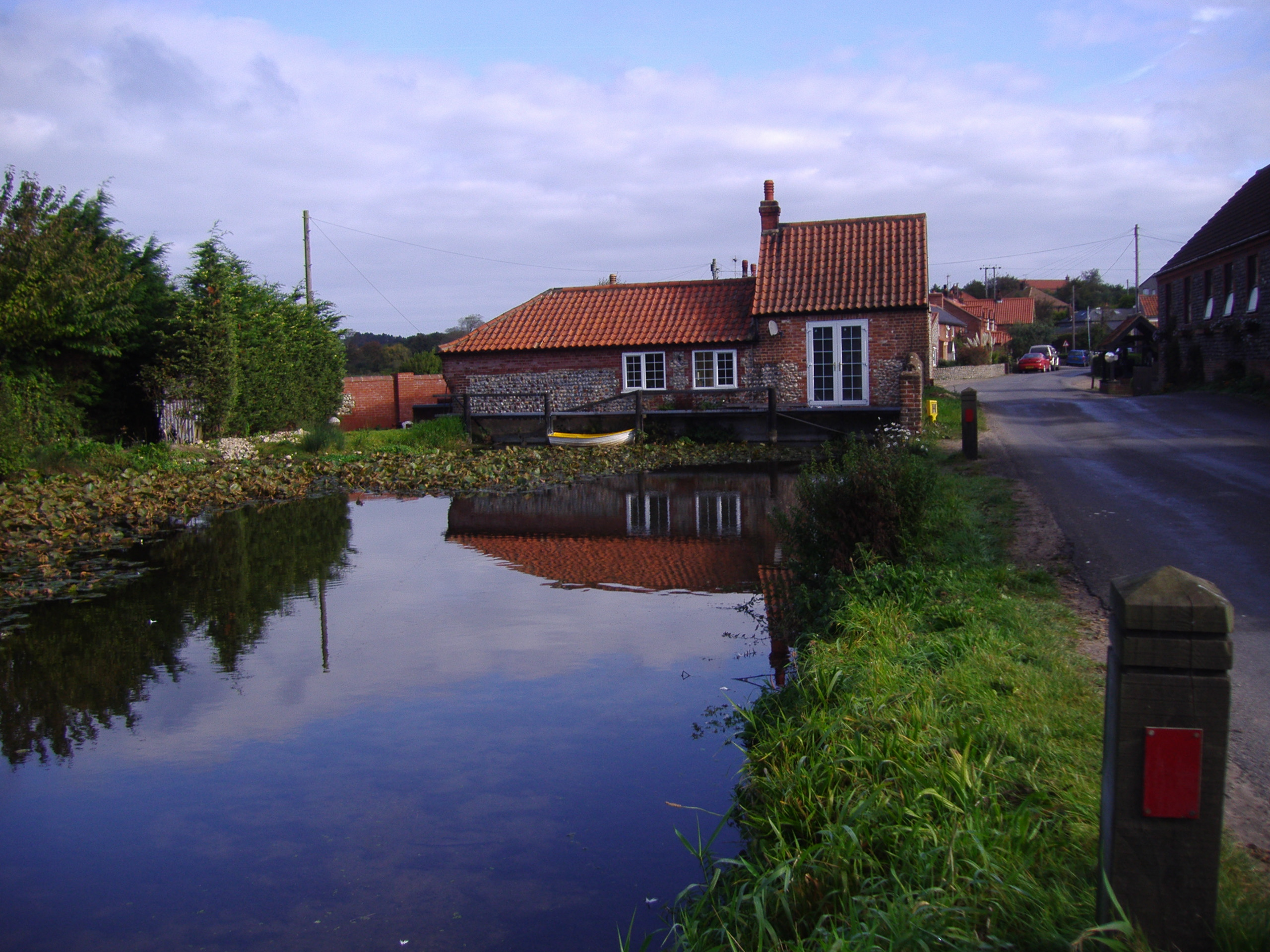 River Mun feeds Gimingham mill ponds, Norfolk, England